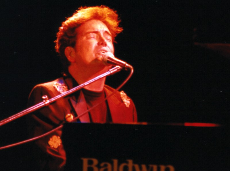 David Meece, solo performance, Edmonton, Alberta.